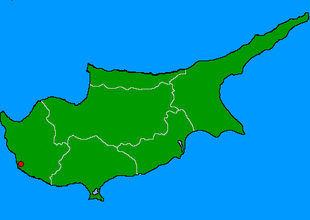 Map of Cyprus with Paphos